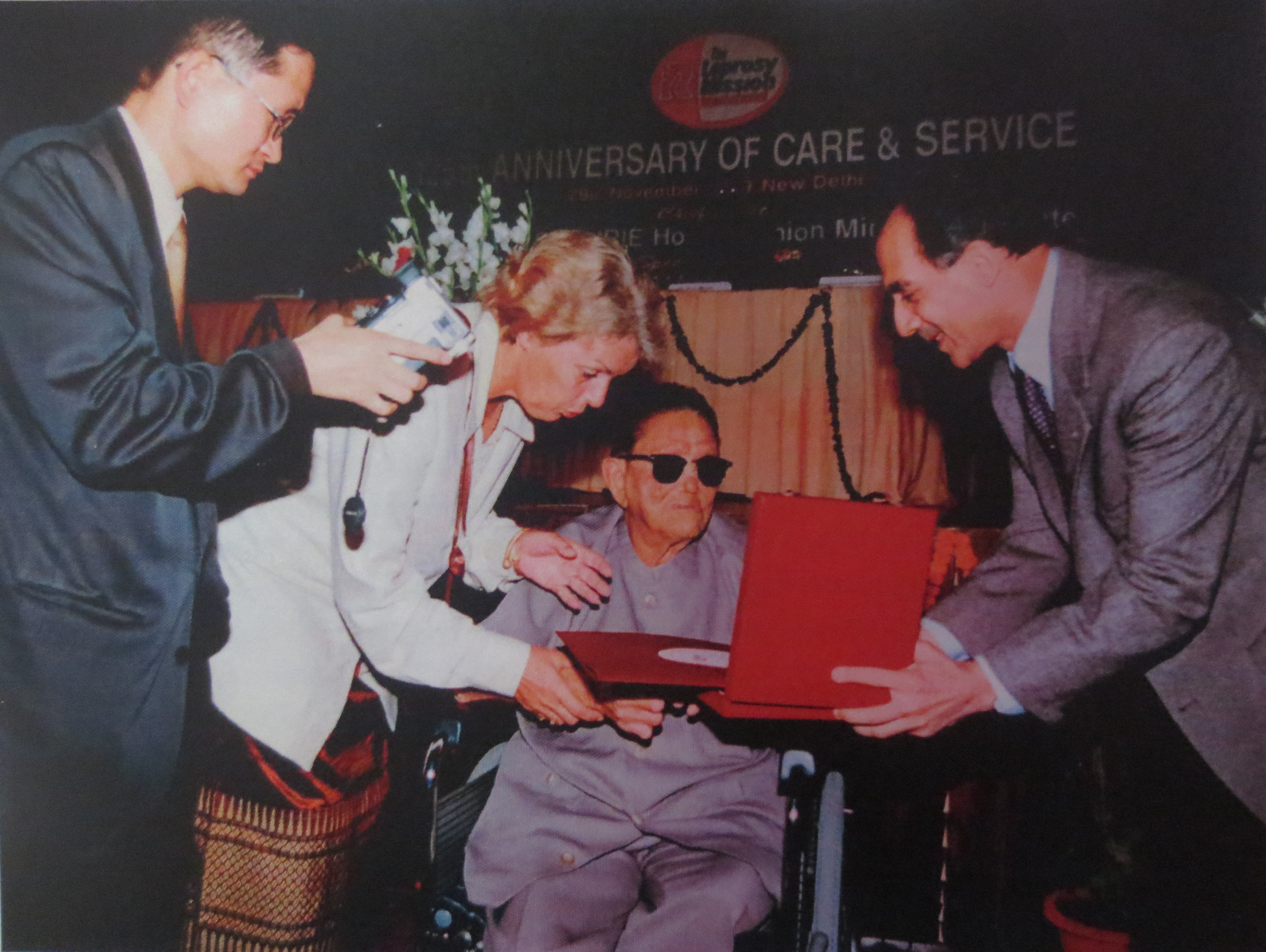 Humbert Willems receiving the Wellesley Bailey Award, New Delhi, 1999